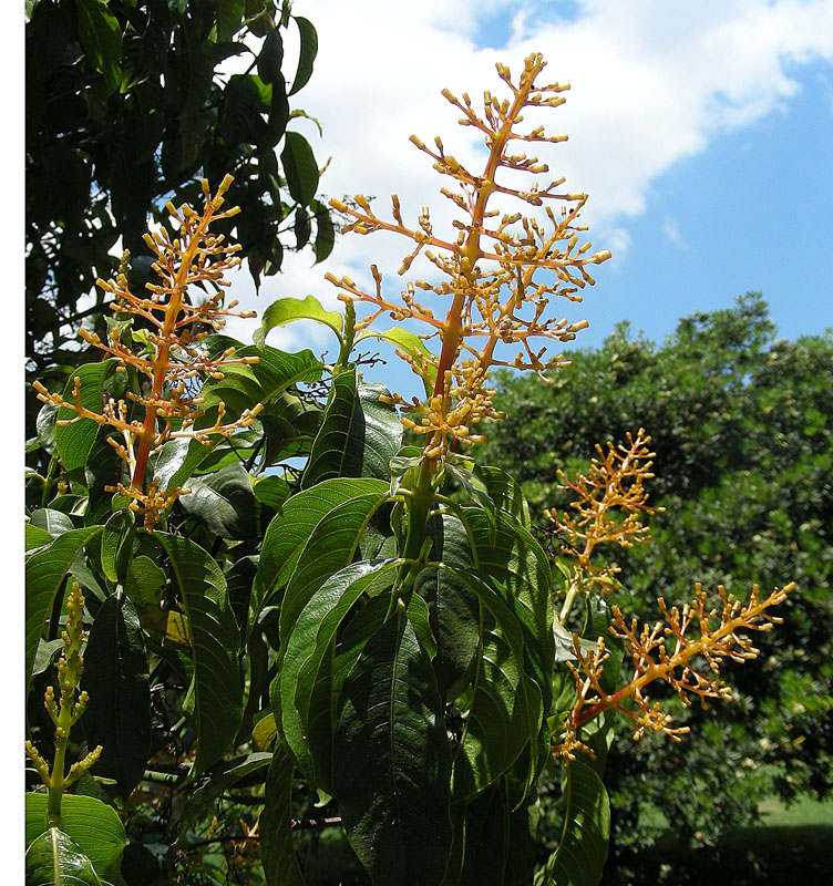 Endemic to Colombia, with photo from Bogota Botanical Gardens. In context at